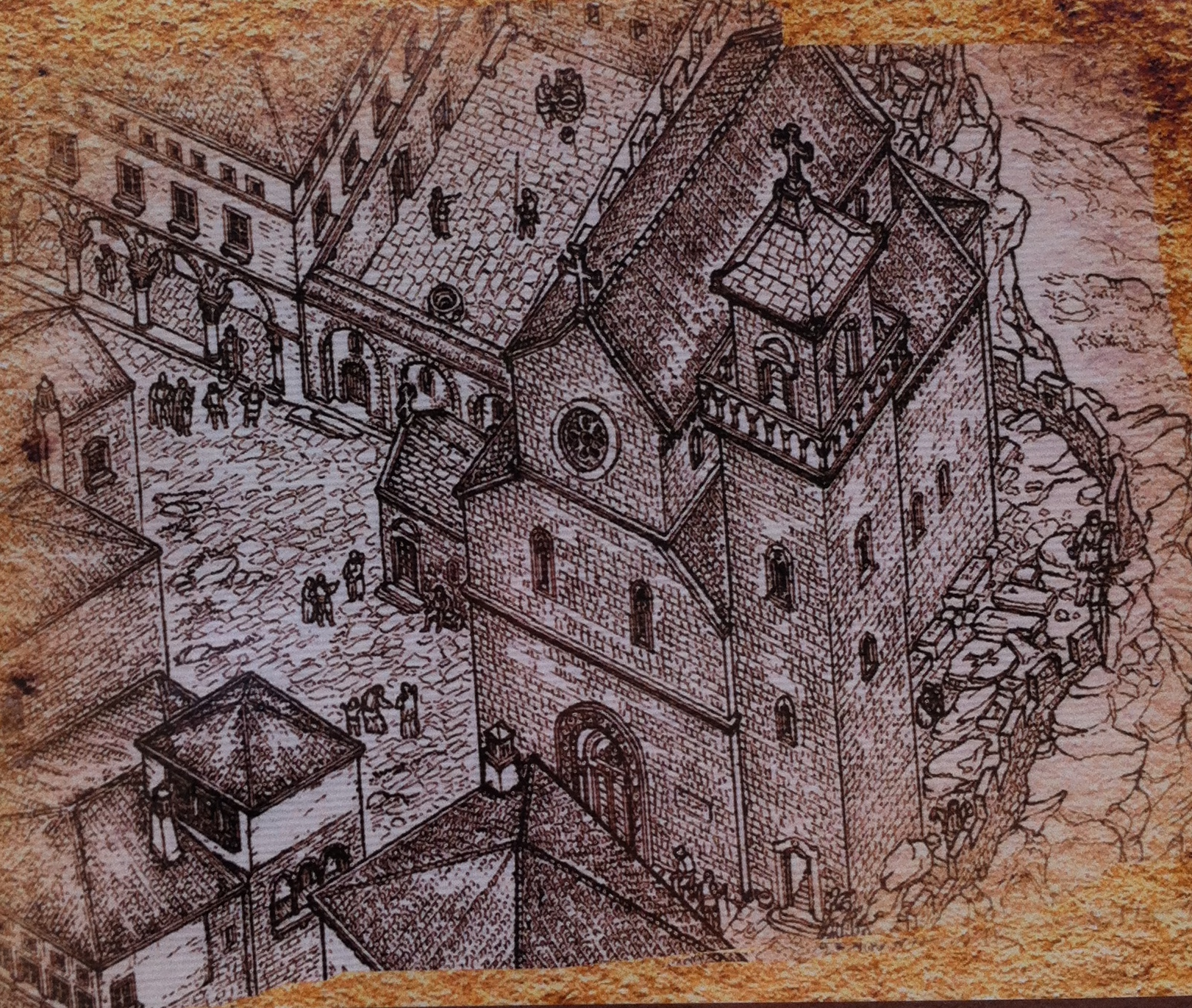 St. George's Cathedral in Old Bar, Montenegro, Montenegro - reconstruction